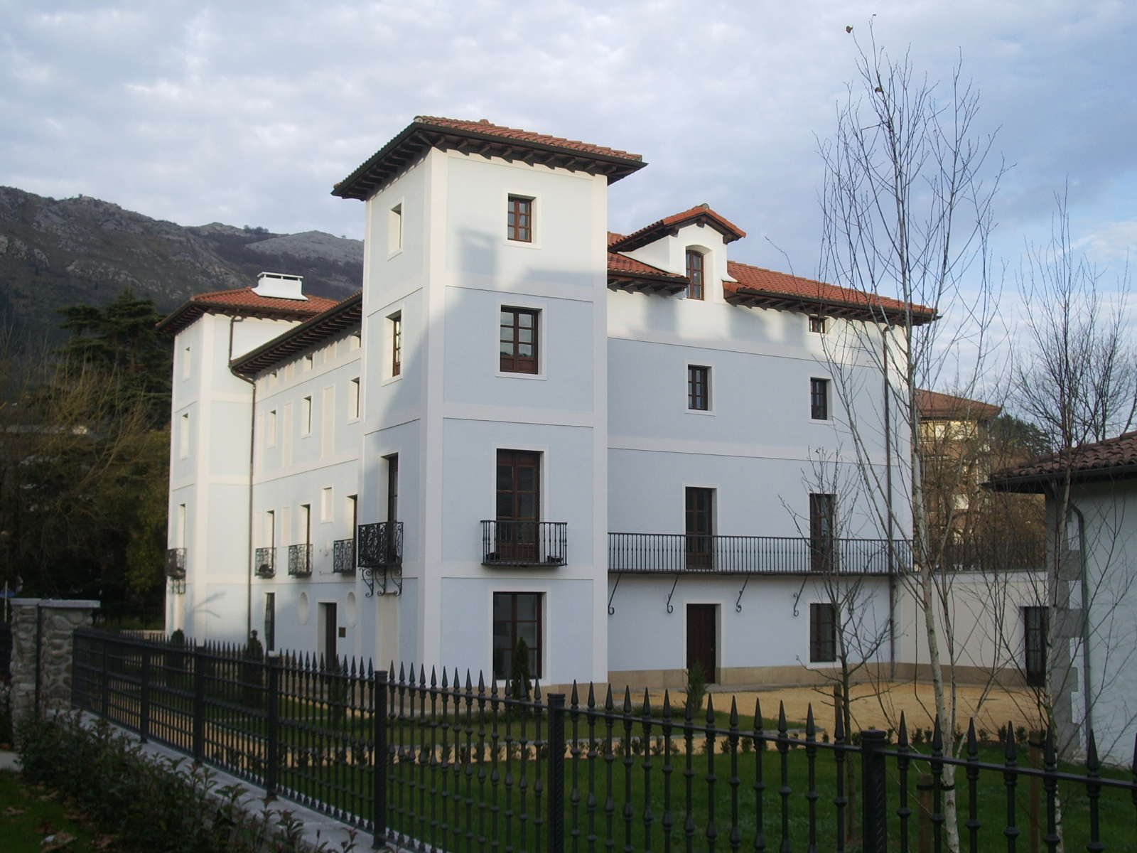 Insausti palace, headquarters of the Society of Friends of the Basque Country, Azkotia, Guipuscoa, Basque Country